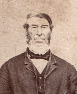 Portrait of Andries Hendrik Potgieter around 1851-52 in Lourenço Marques, Delagoa Bay